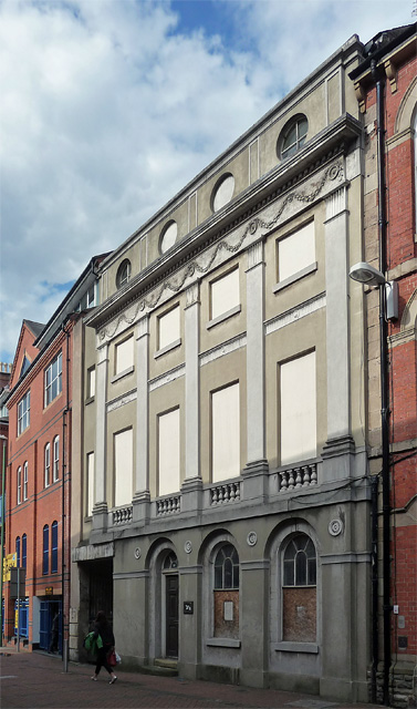 27 St Mary's Gate, Nottingham